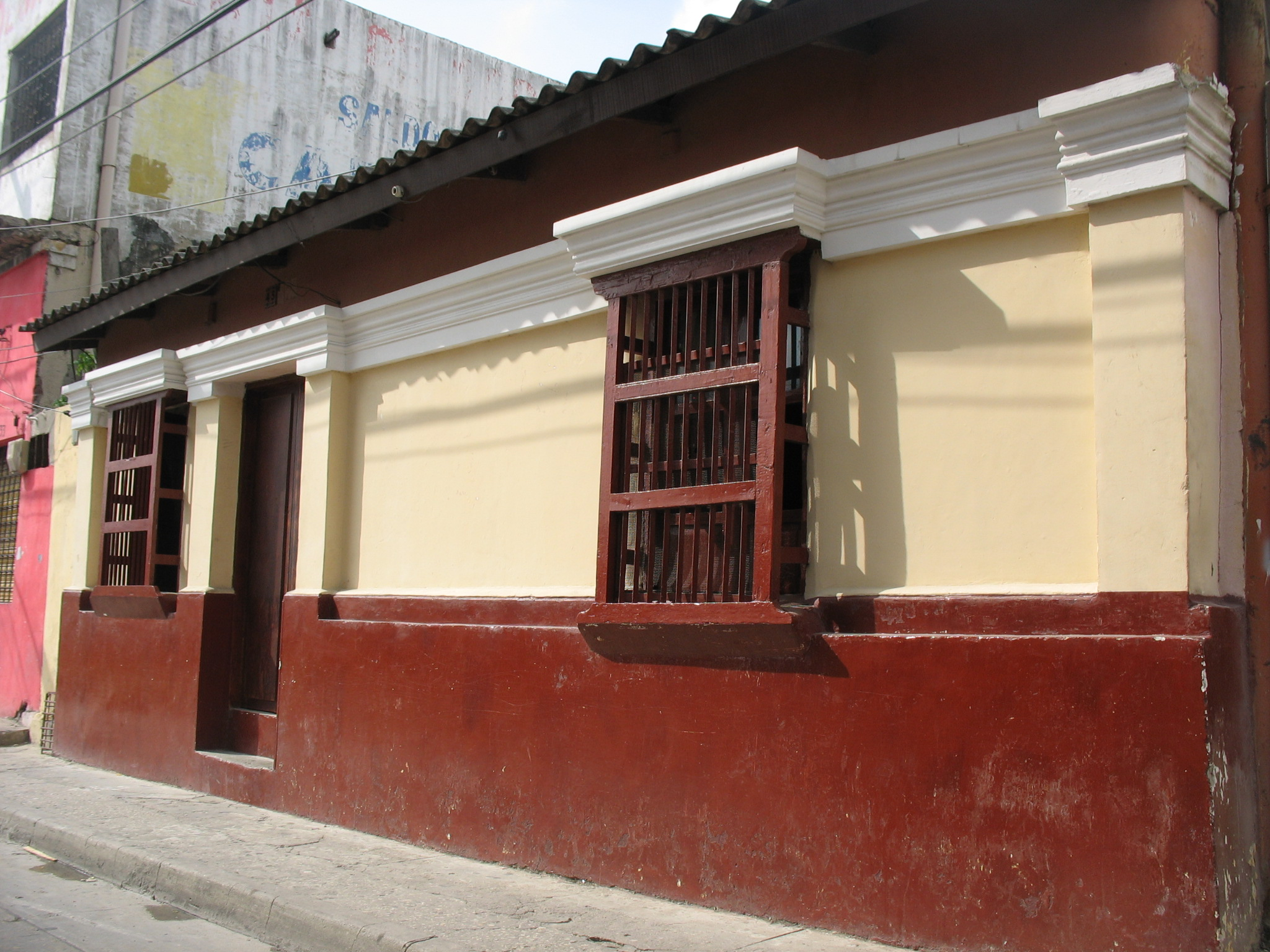 Barranquilla Abajo district house # 1